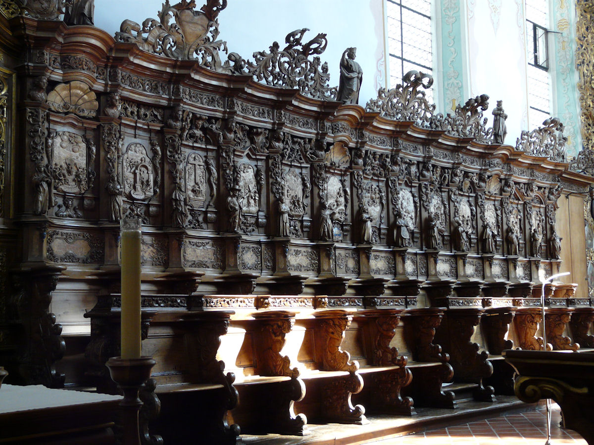 Wooden choir stalls by Georg Anton Macheln at the Church of St. Magnus (Kloster Schussenried) in the town of Bad Schussenried in Upper Swabia in Germany